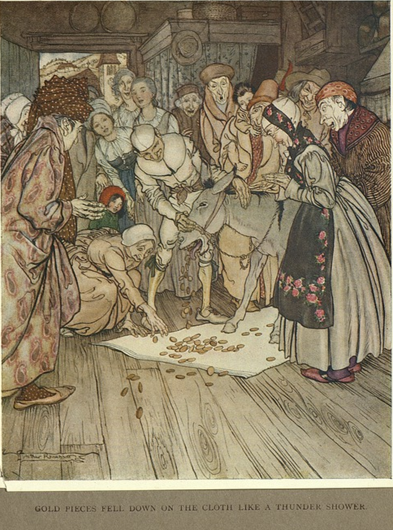 Little brother & little sister and other tales by the Brothers Grimm, illustrated by Arthur Rackham, 1917.